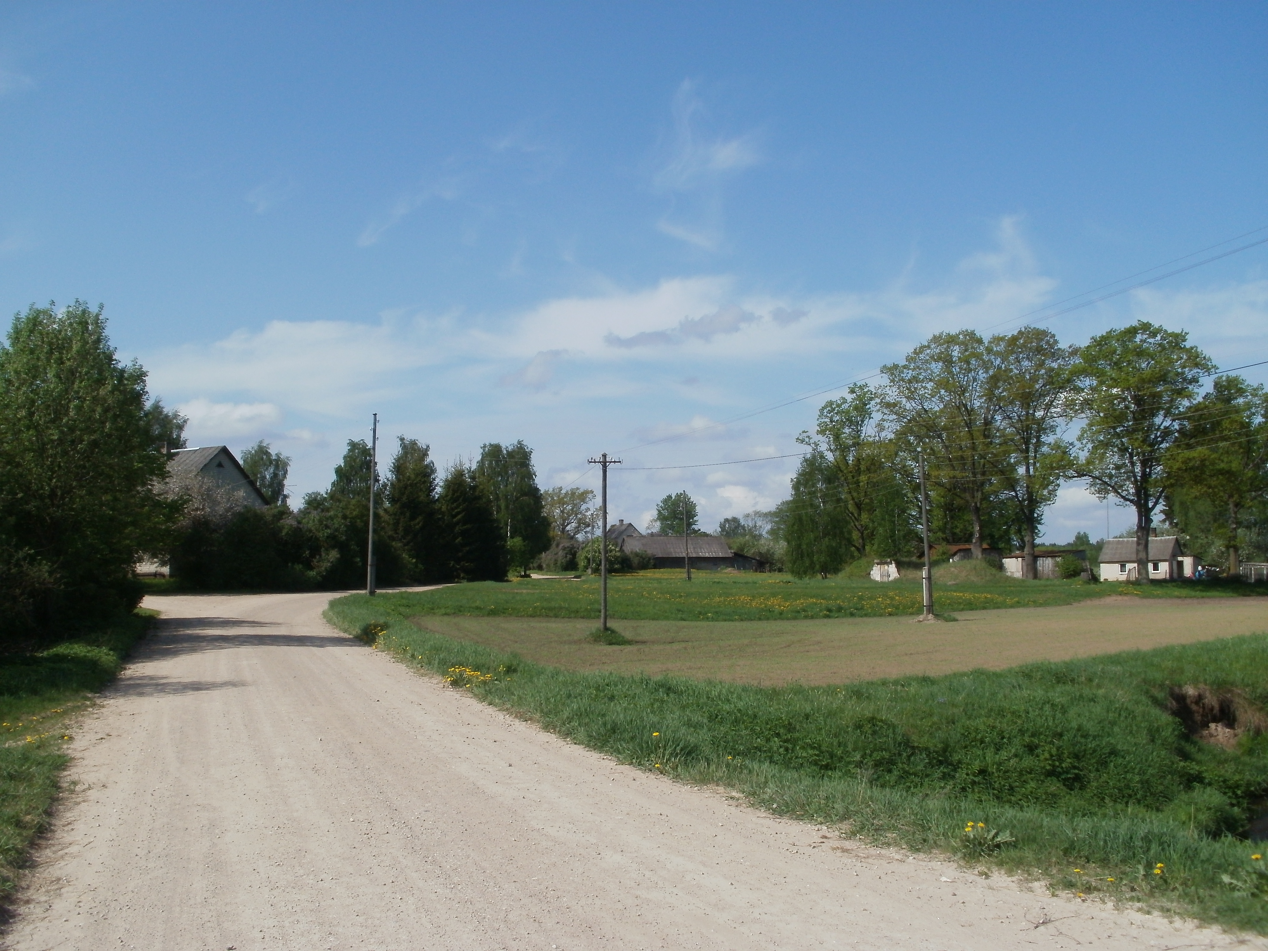 Pulkarne Village